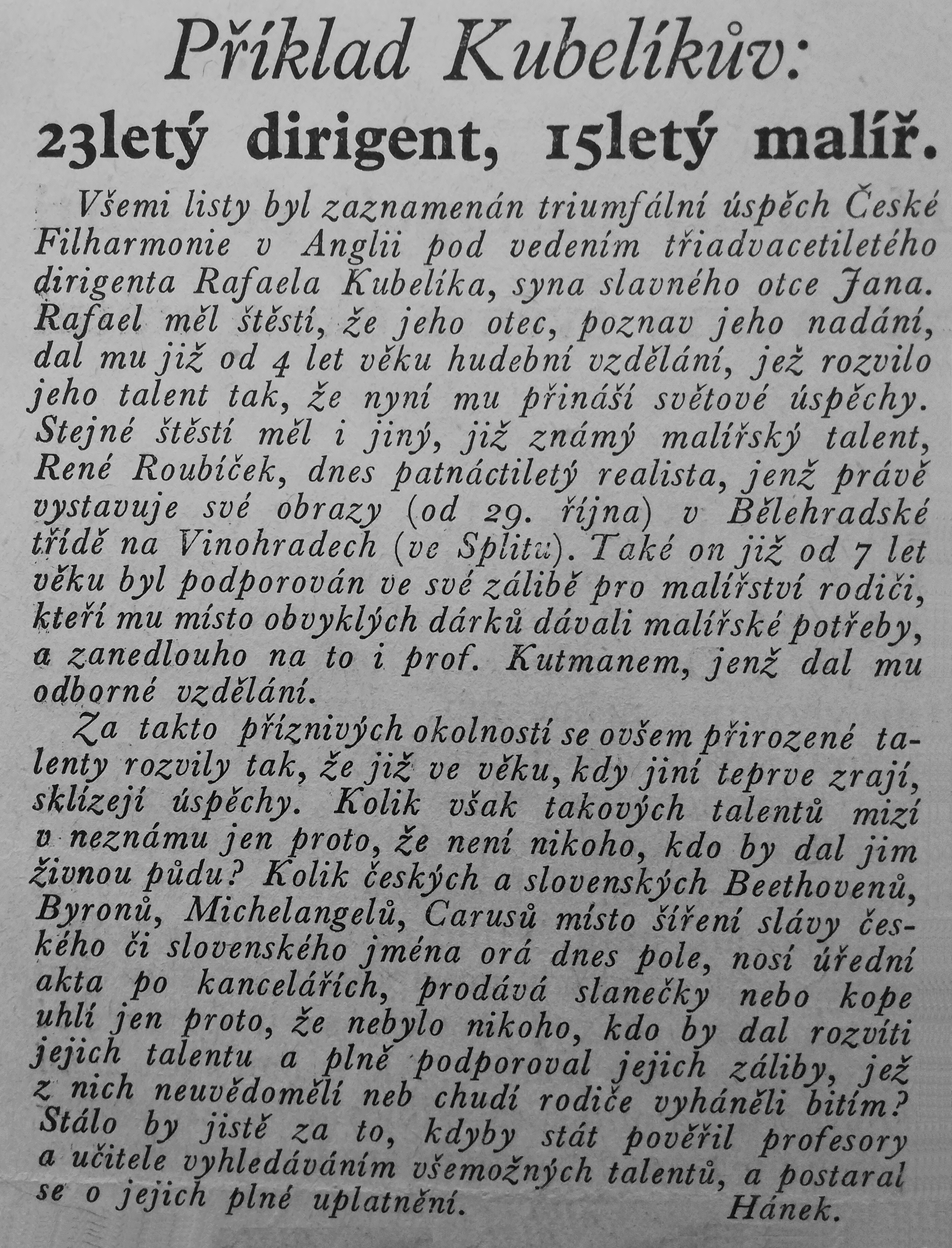 Newspaper article from the periodical press (published before 1940) about 15-year-old painter René Roubíče (1922–2018)